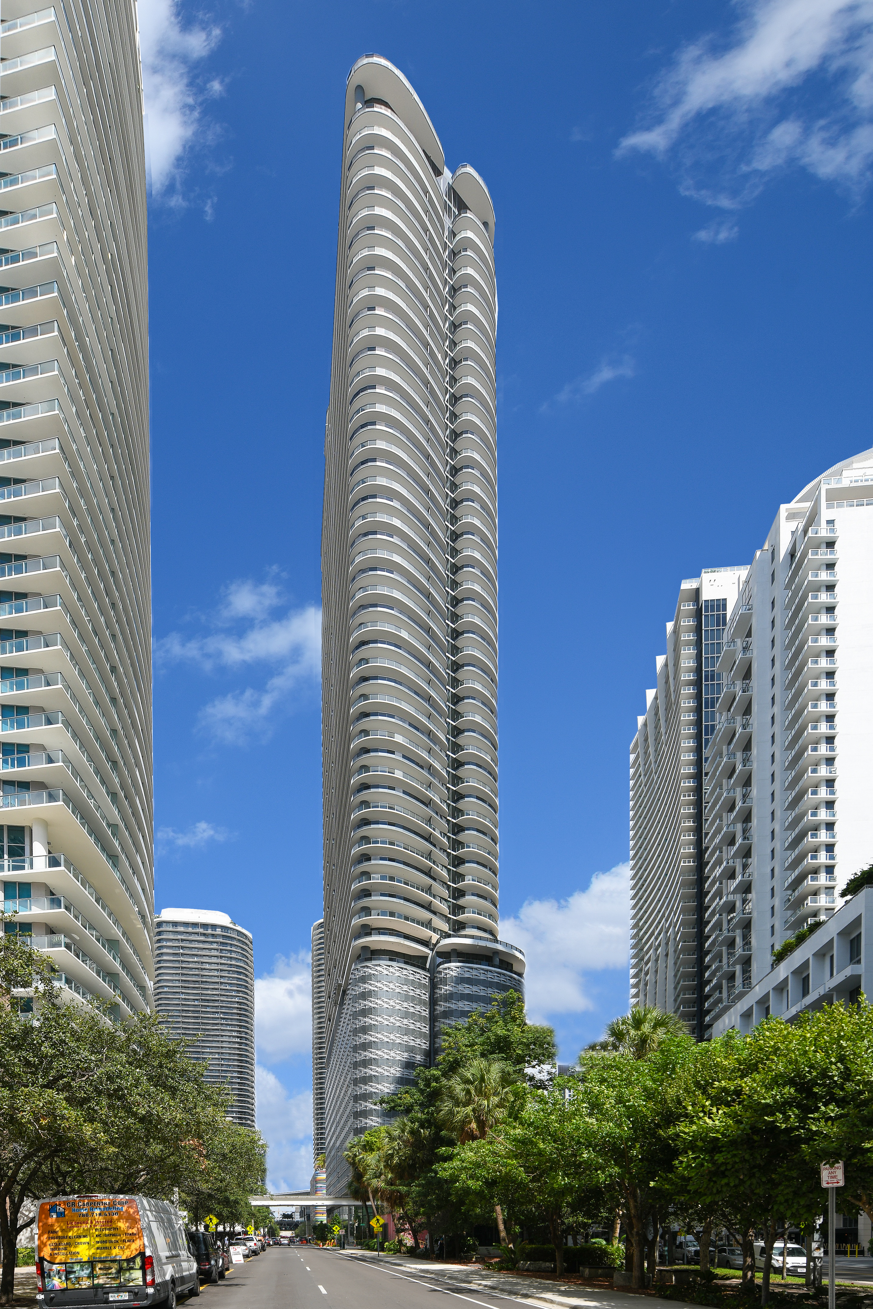 Finished product